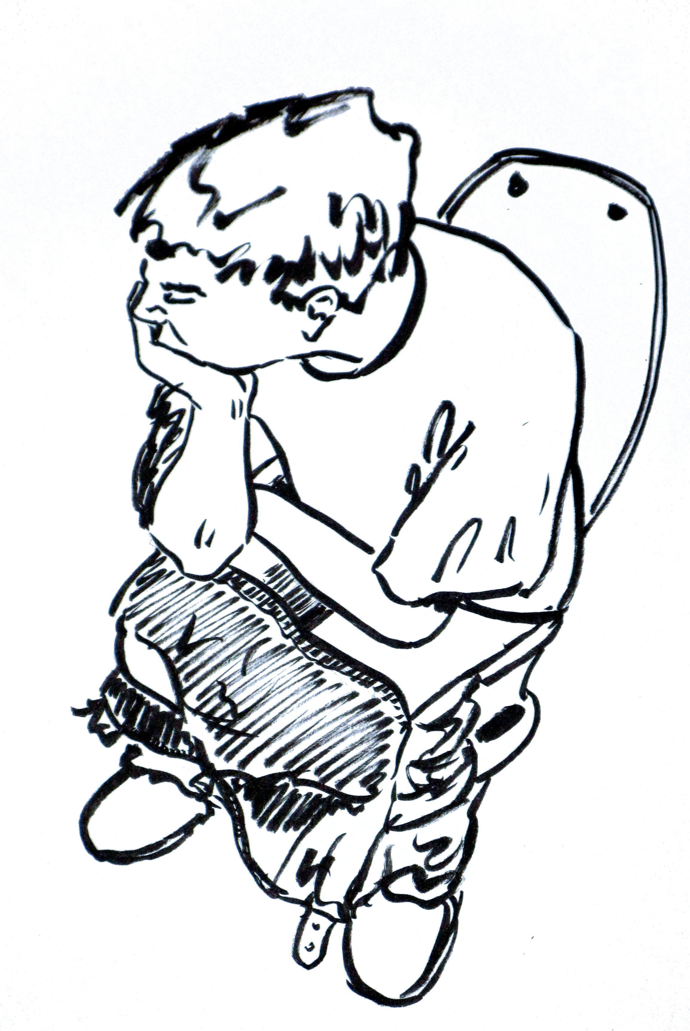 Defecation in the sitting position, as used in toilets of Western Europe notably